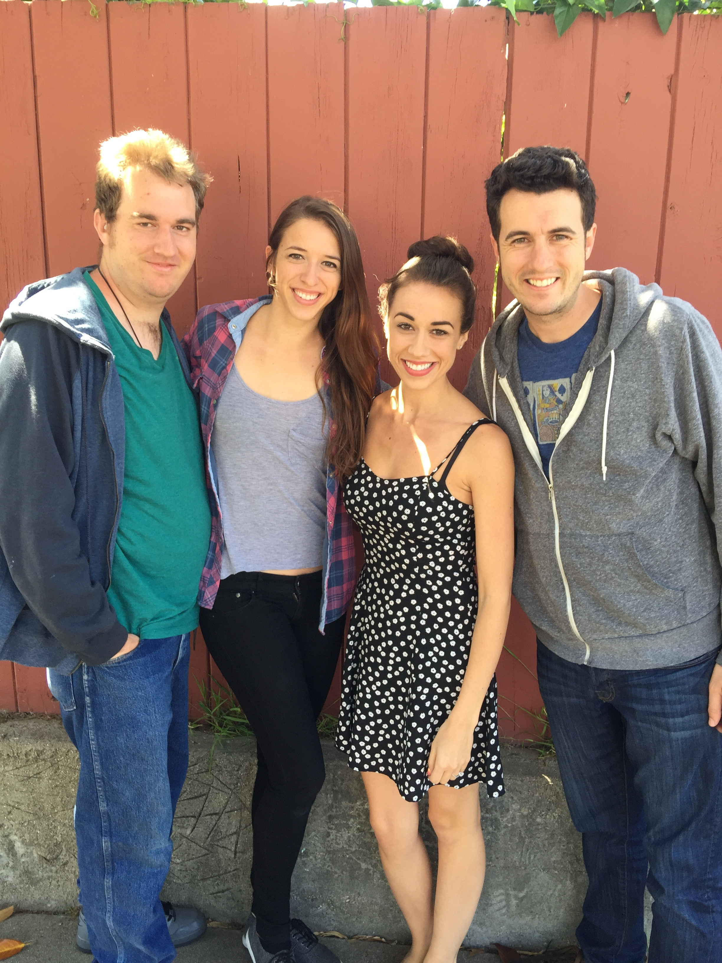 Photo of Trent, Rachel, Colleen and Christopher Ballinger, taken in Santa Barbara, in 2015 Other information The photographer wrote in a message attaching this photo and one other: I, Gwen Ballinger, am the photographer and I own all the rights to these photos. ... I hereby release these two photos to the public domain without the reservation of any rights.